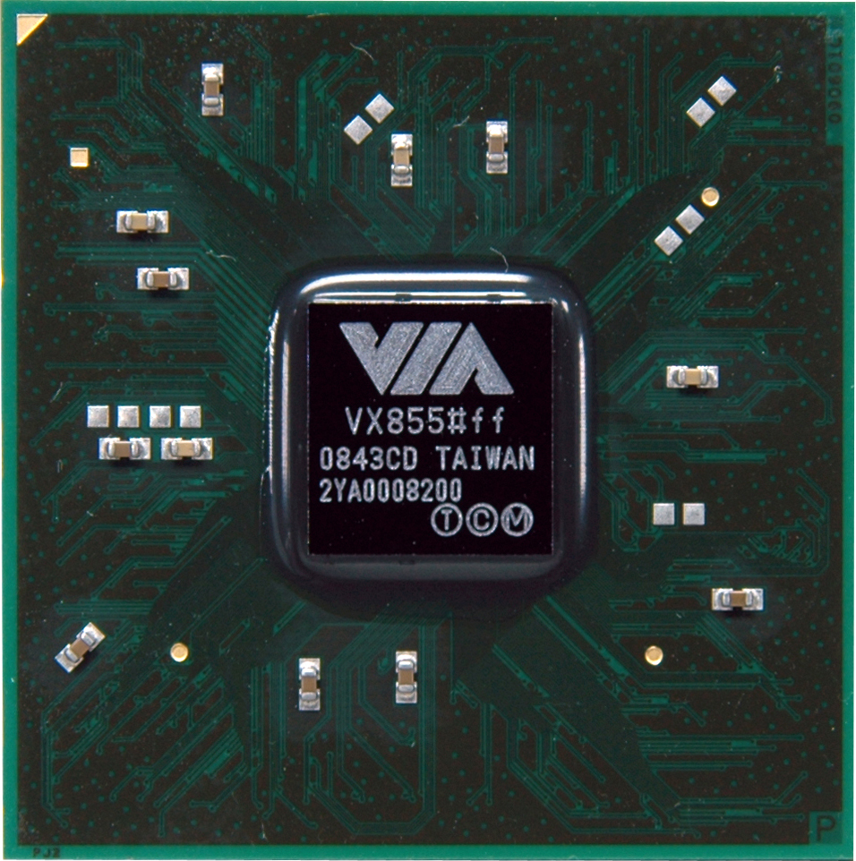 VIA VX855 IGP chipset